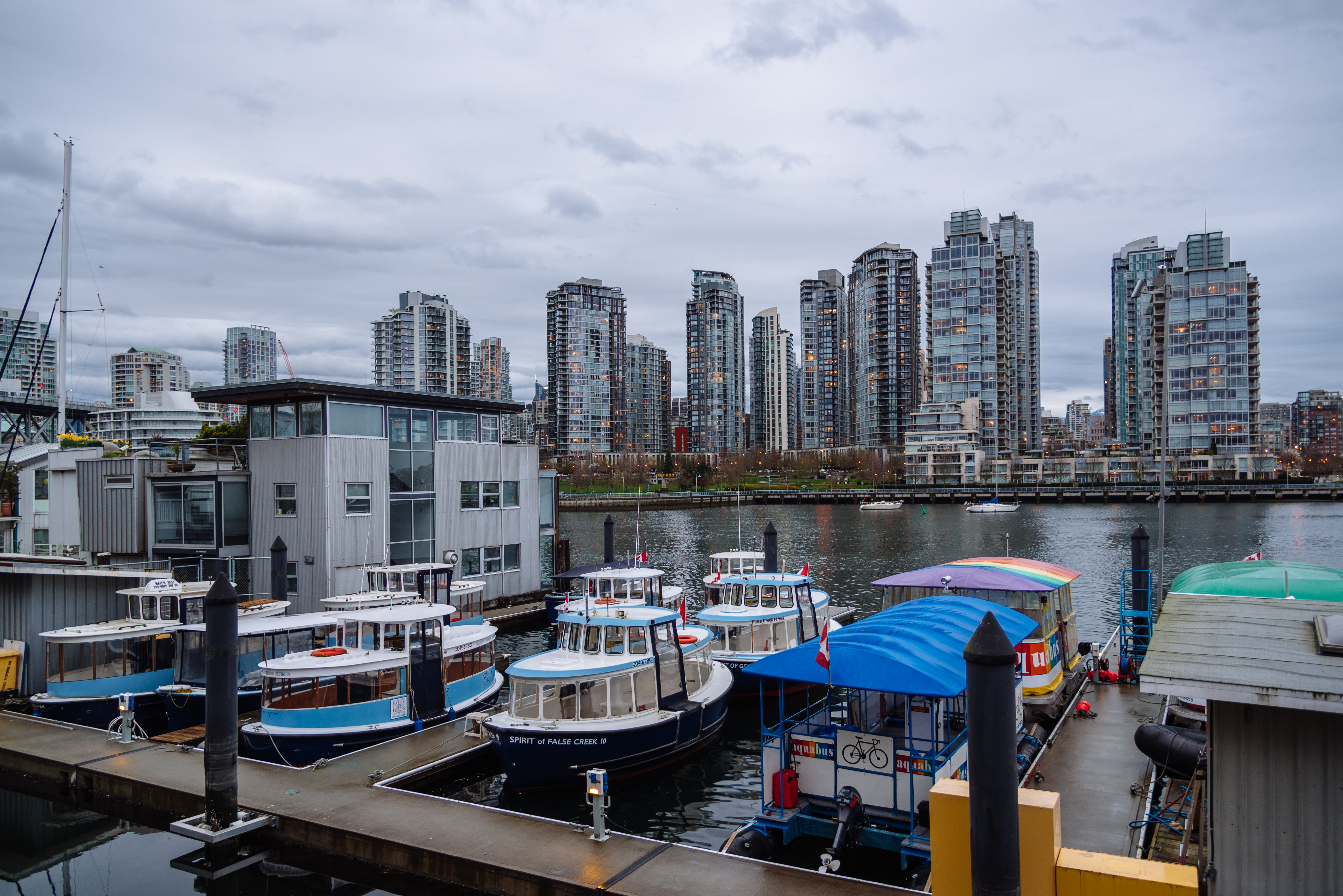 Boats parked on Granville Island, Vancouver, Canada